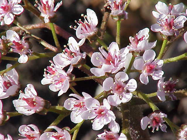 Species: Darmera peltata Family: Saxifragaceae Image No. 1